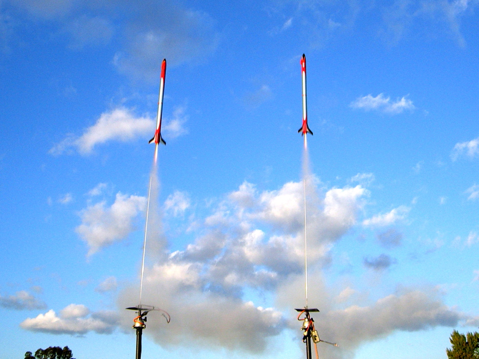 Author: jurvetson URL: Description: Twin Oracle model rocket launch. Licensing